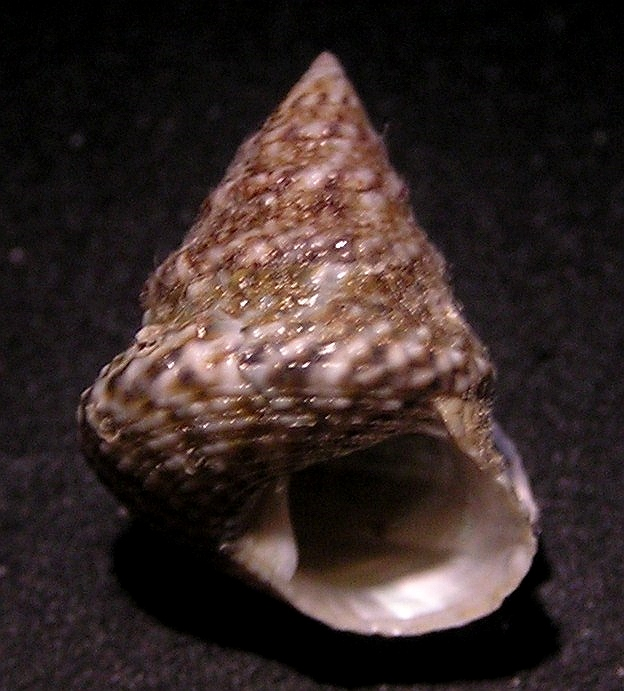 Calthalotia arruensis Watson, 1880, a top shell in the family Trochidae; Australia